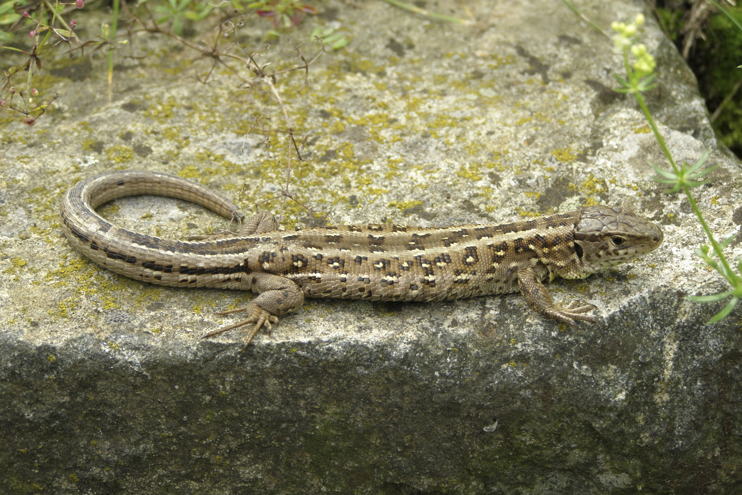 Sand Lizard (female).